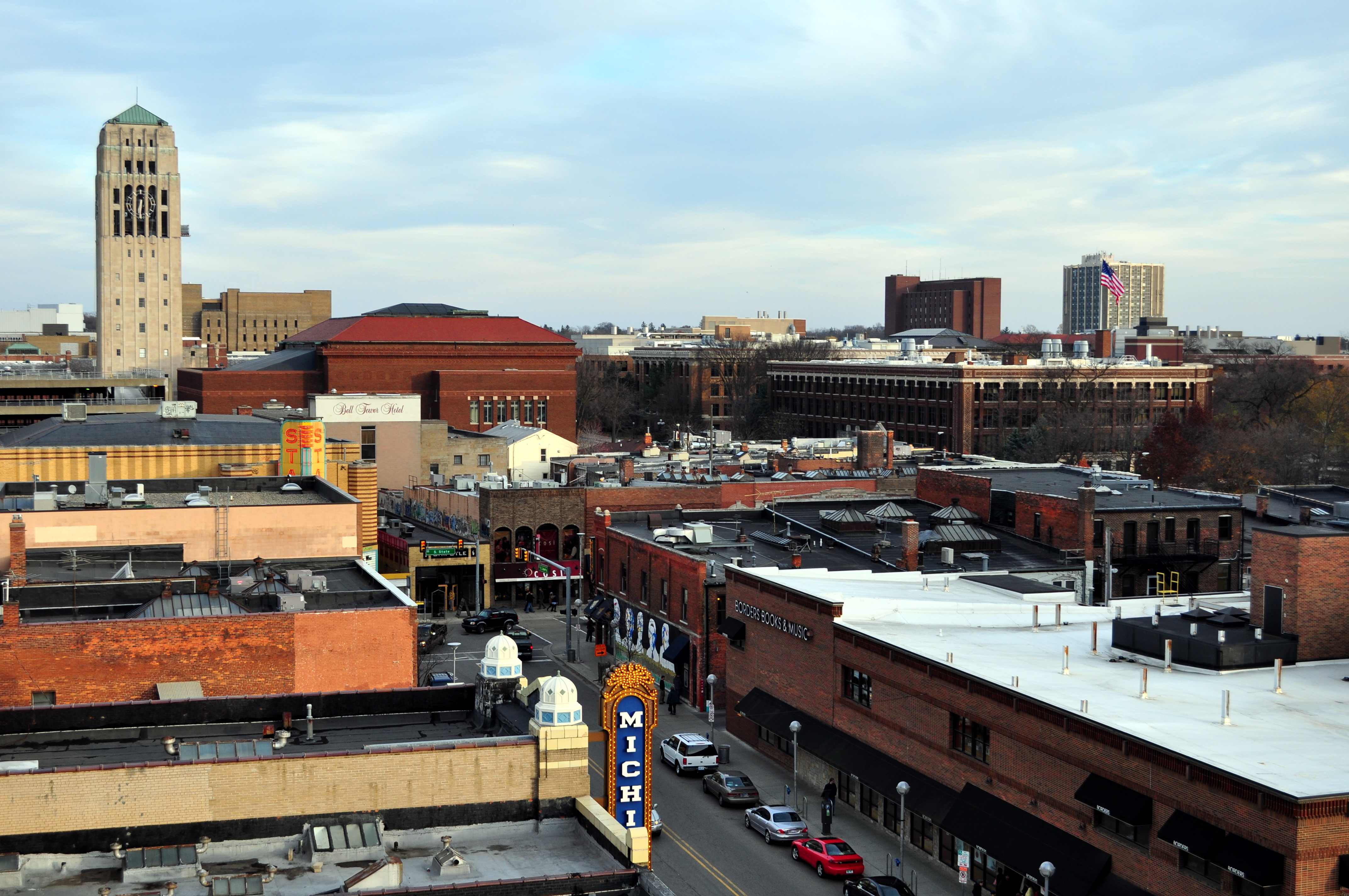 A photo down Liberty Street in Ann Arbor Michigan, November 20, 2010